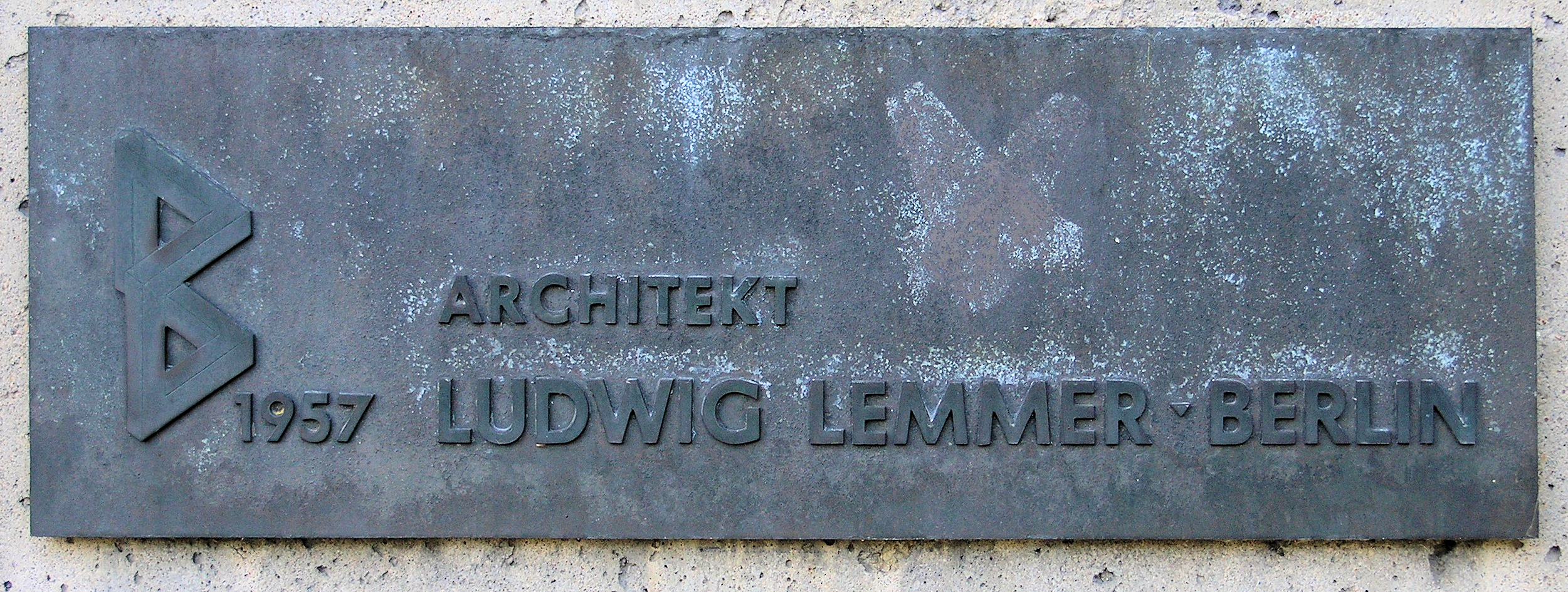 Memorial plaque, Ludwig Lemmer, Händelallee 20, Berlin-Hansaviertel, Germany